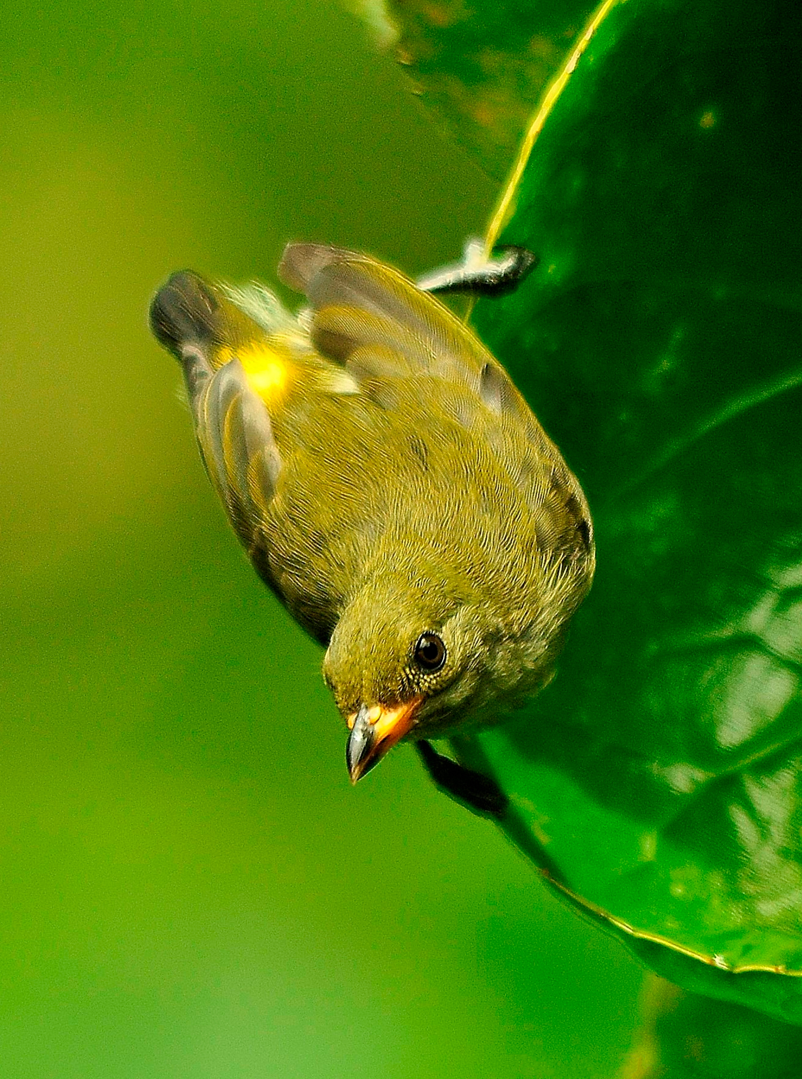 about to take a bath in this leaf catchment. taken in Taytay, Palawan, Philippines